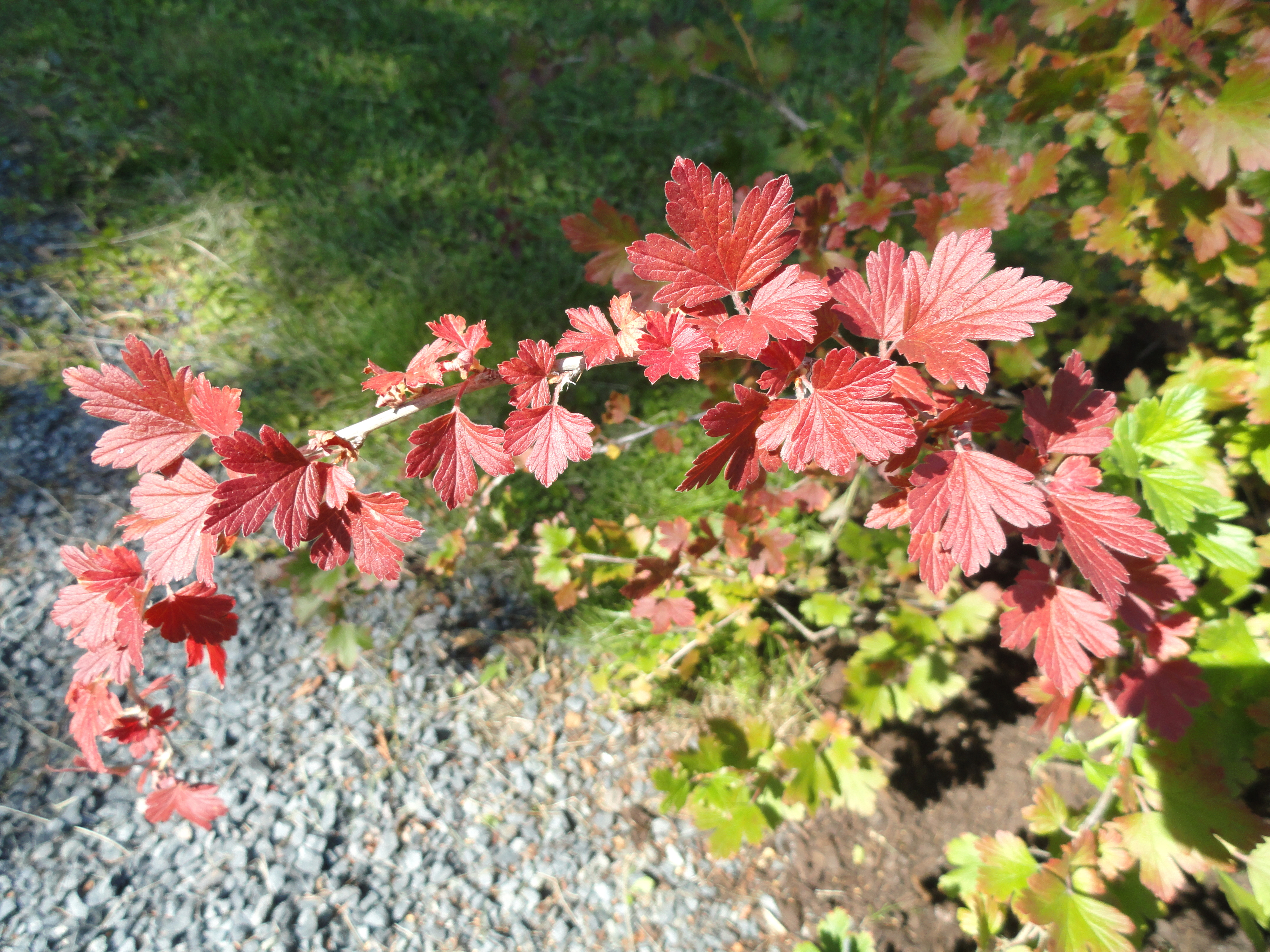 Ribes specimen. The University of Helsinki Botanical Garden at Kaisaniemi